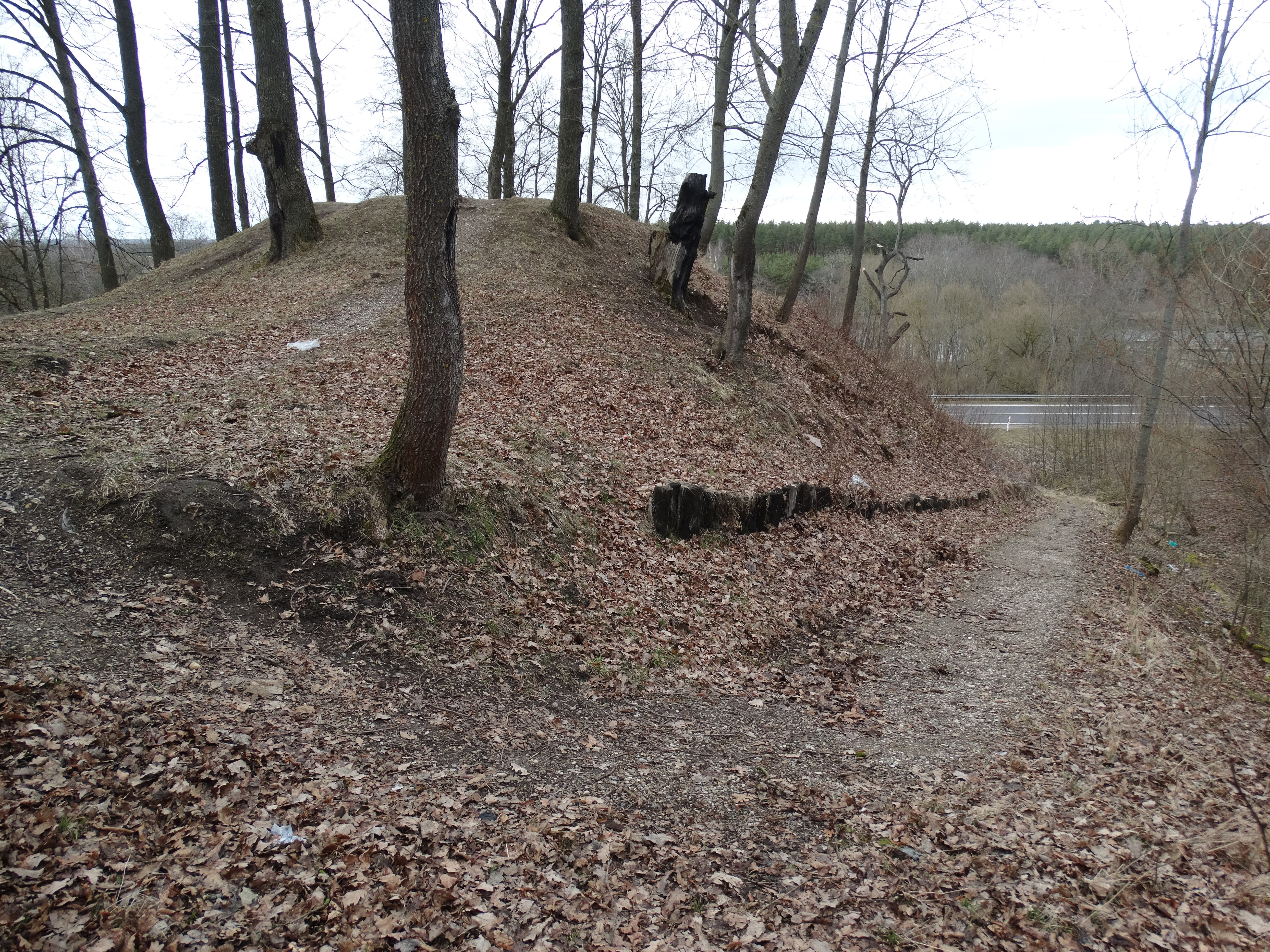 Hillfort, Rukla, Jonava district, Lithuania